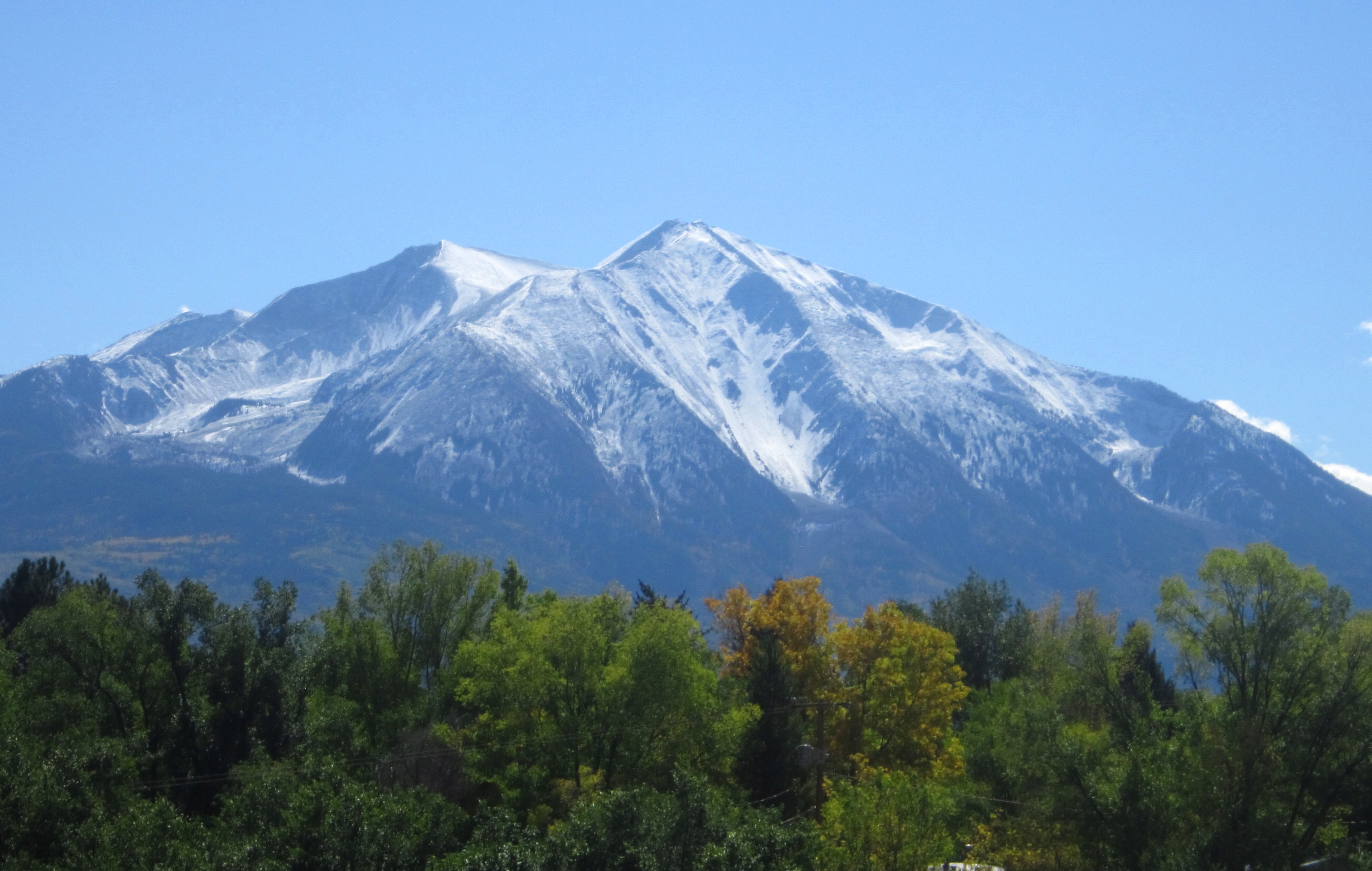 Mt. Sopris 2014